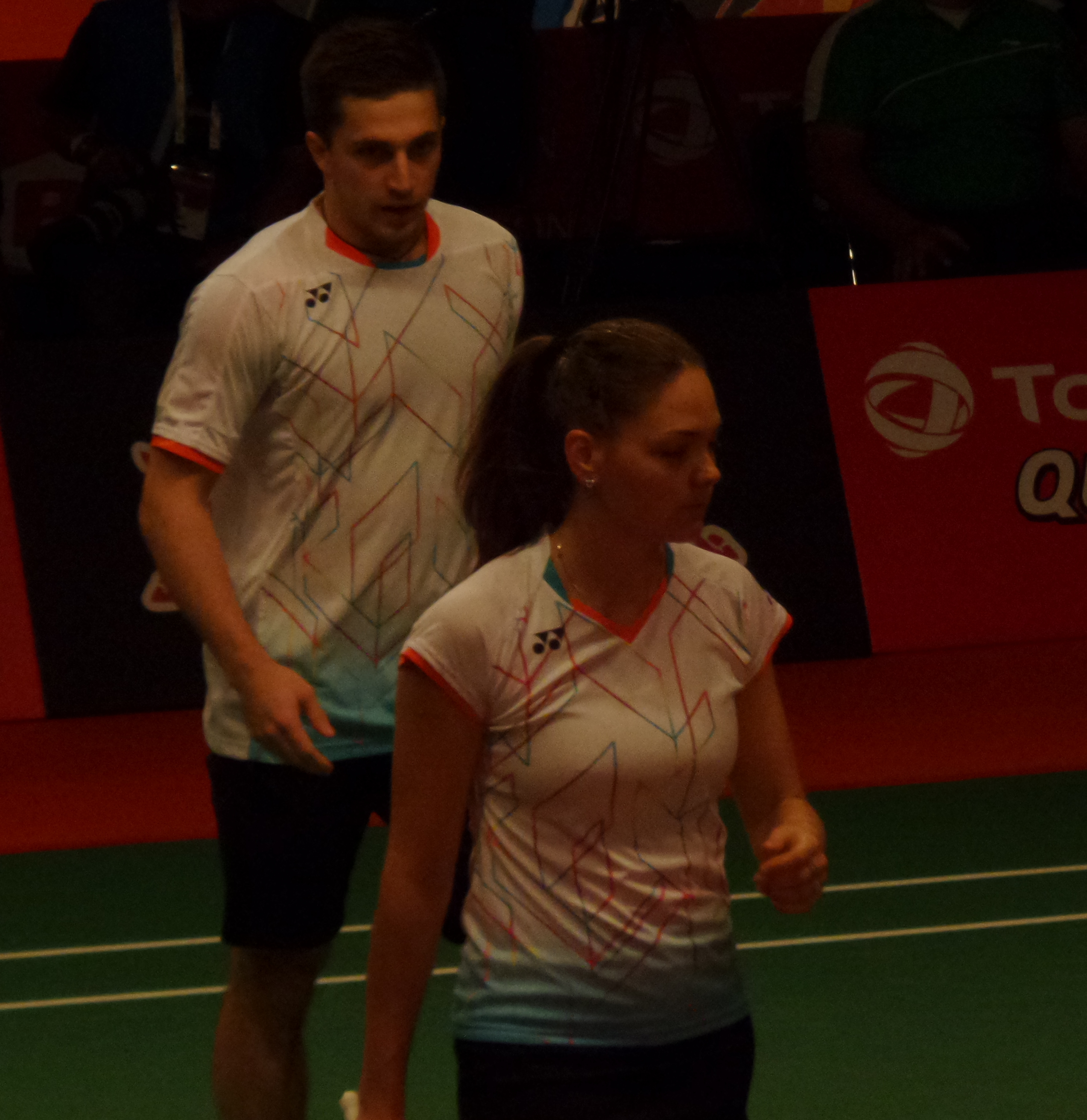 Rodion Kargaev and Ekaterina Bolotova in action during Day 2 of the 2015 BWF World Championships